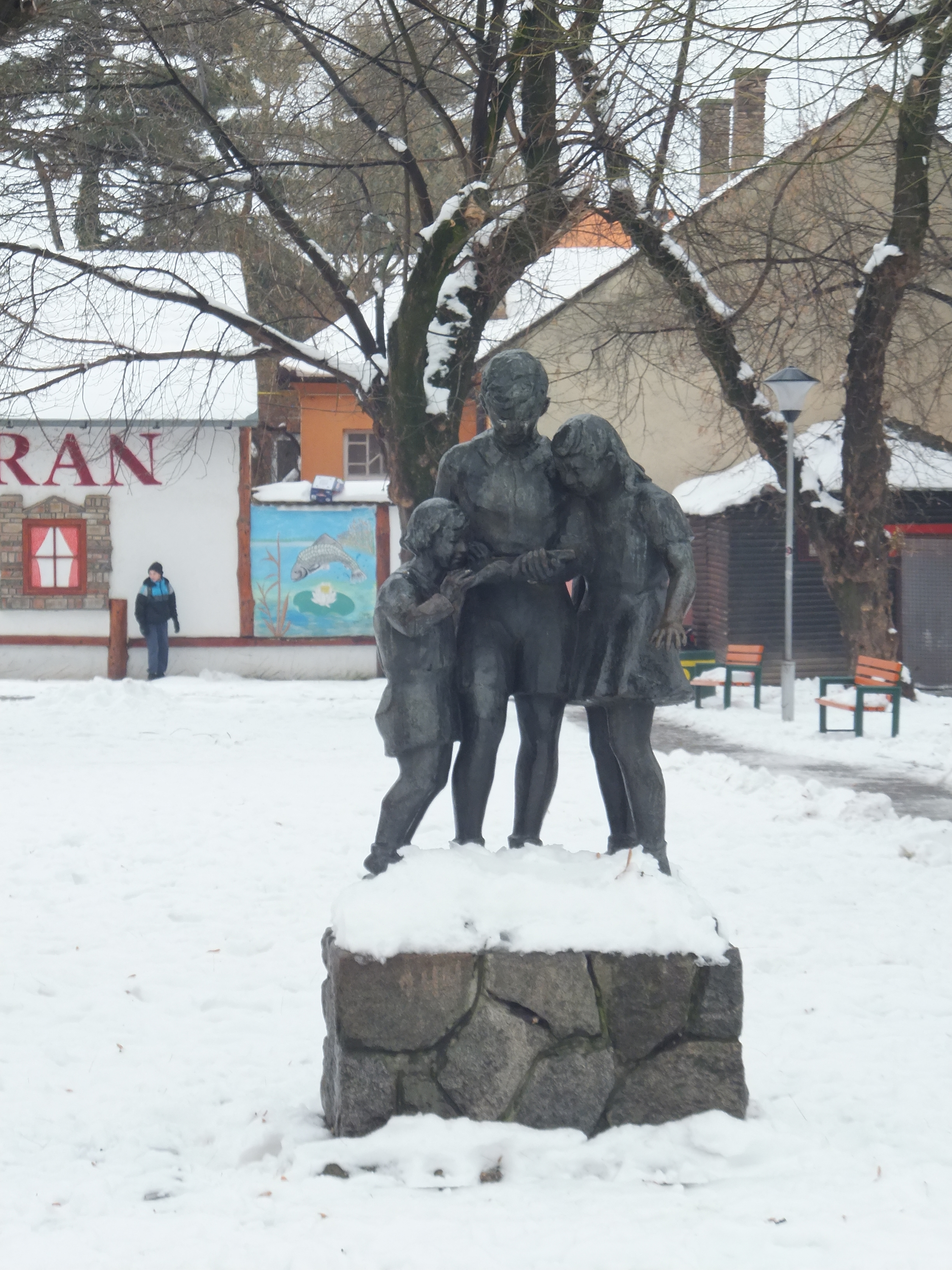 Monument Children with a book in a park in Ruma